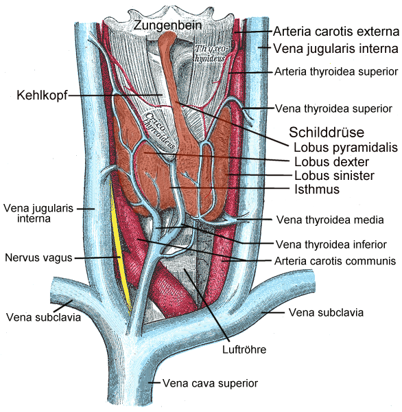 Thyroid gland. Same as File:Thyroid.png, but legend adapted and coloured